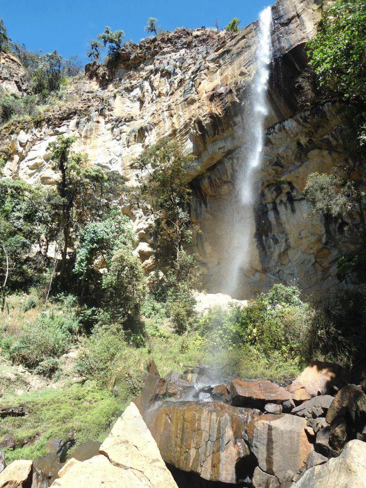 El Velo de Novia del Distrito El Prado. Chorro.